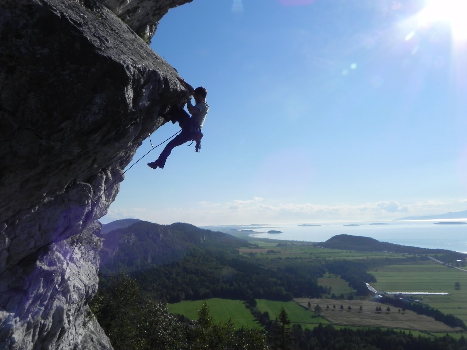 crux of the Route Moby Dick, 5.11b, Kamouraska